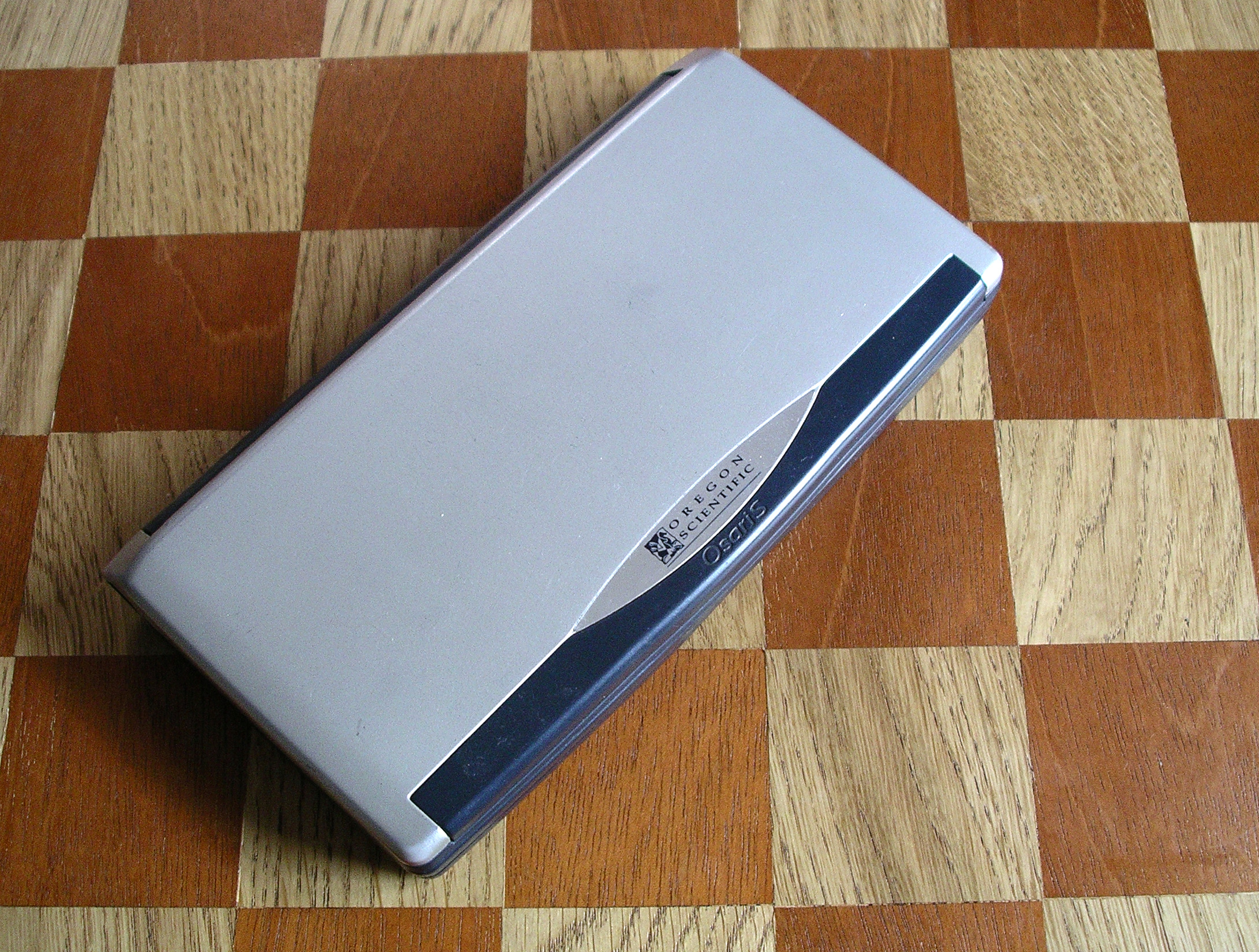 Photo taken on 3 November 2006 of an Osaris with lid closed. The background has 5 cm squares.